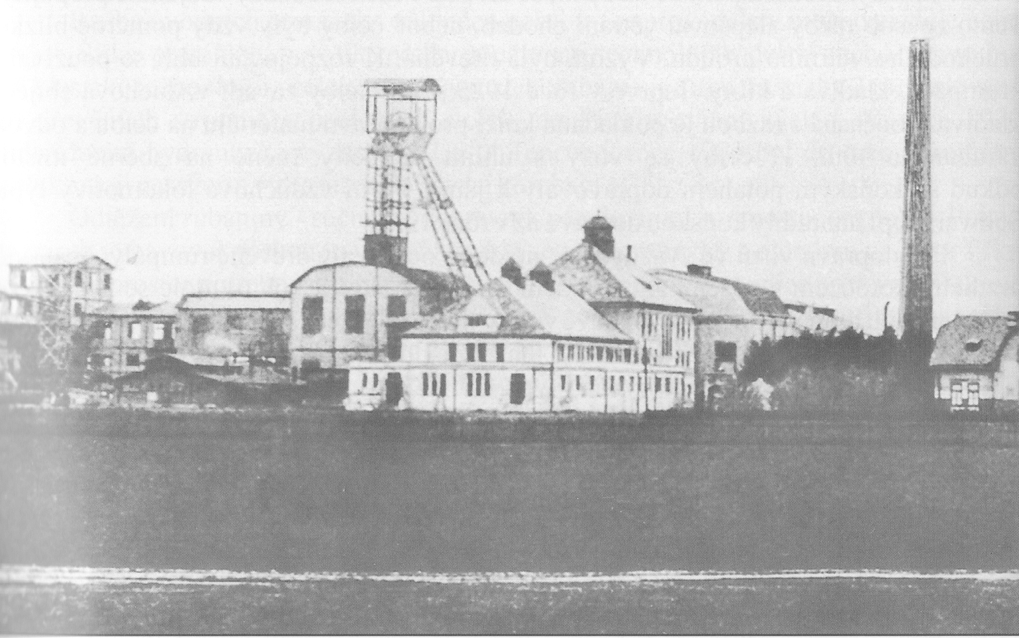 View on the Colliery František in Horní Suchá (Czech Republic) from street direction towards Karviná.